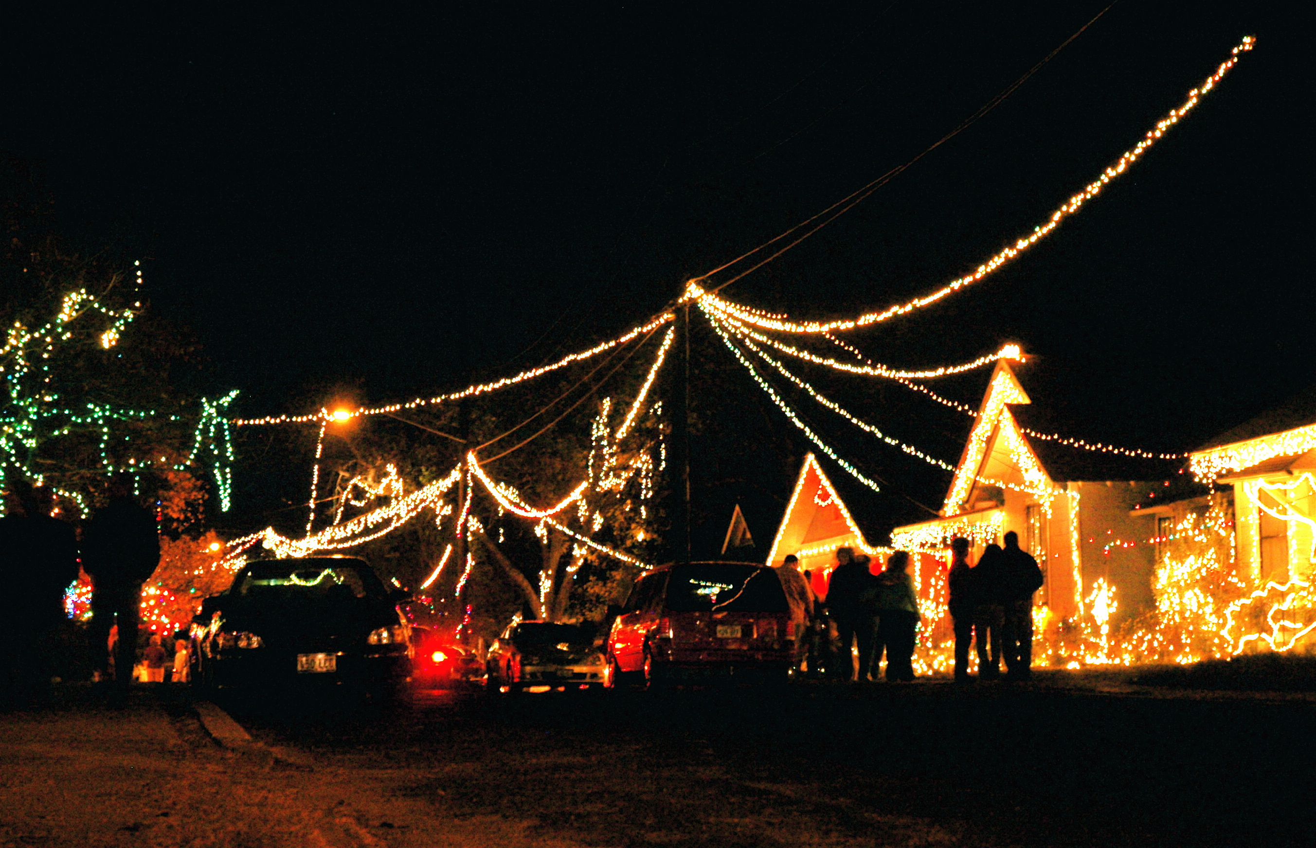 That Other Paper 's photos of the 37th Street Lights in Austin. You definitely need to go check this out if you're in the area.